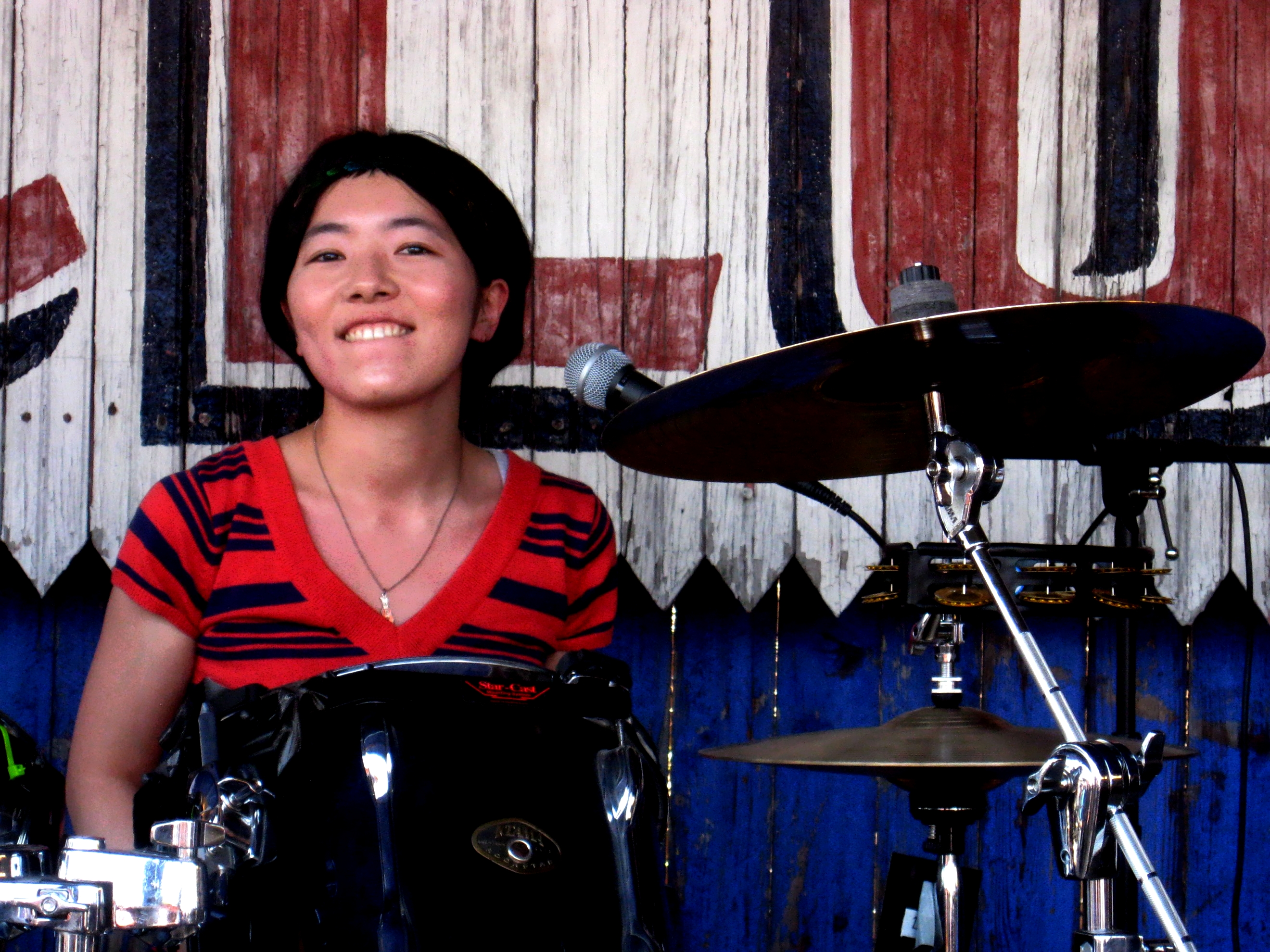 Kumiko Takahashi performing with chatmonchy at the Japan Preview Show in Austin, Texas on March 18, 2010.